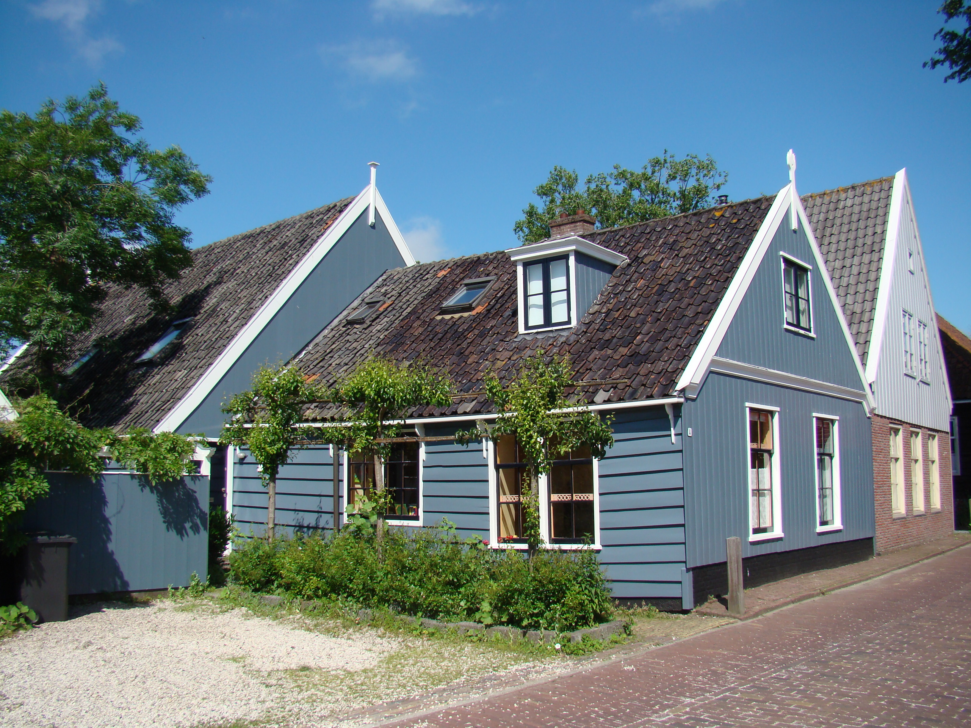 Impressions of Broek in Waterland, Netherlands Impressions of Broek in Waterland